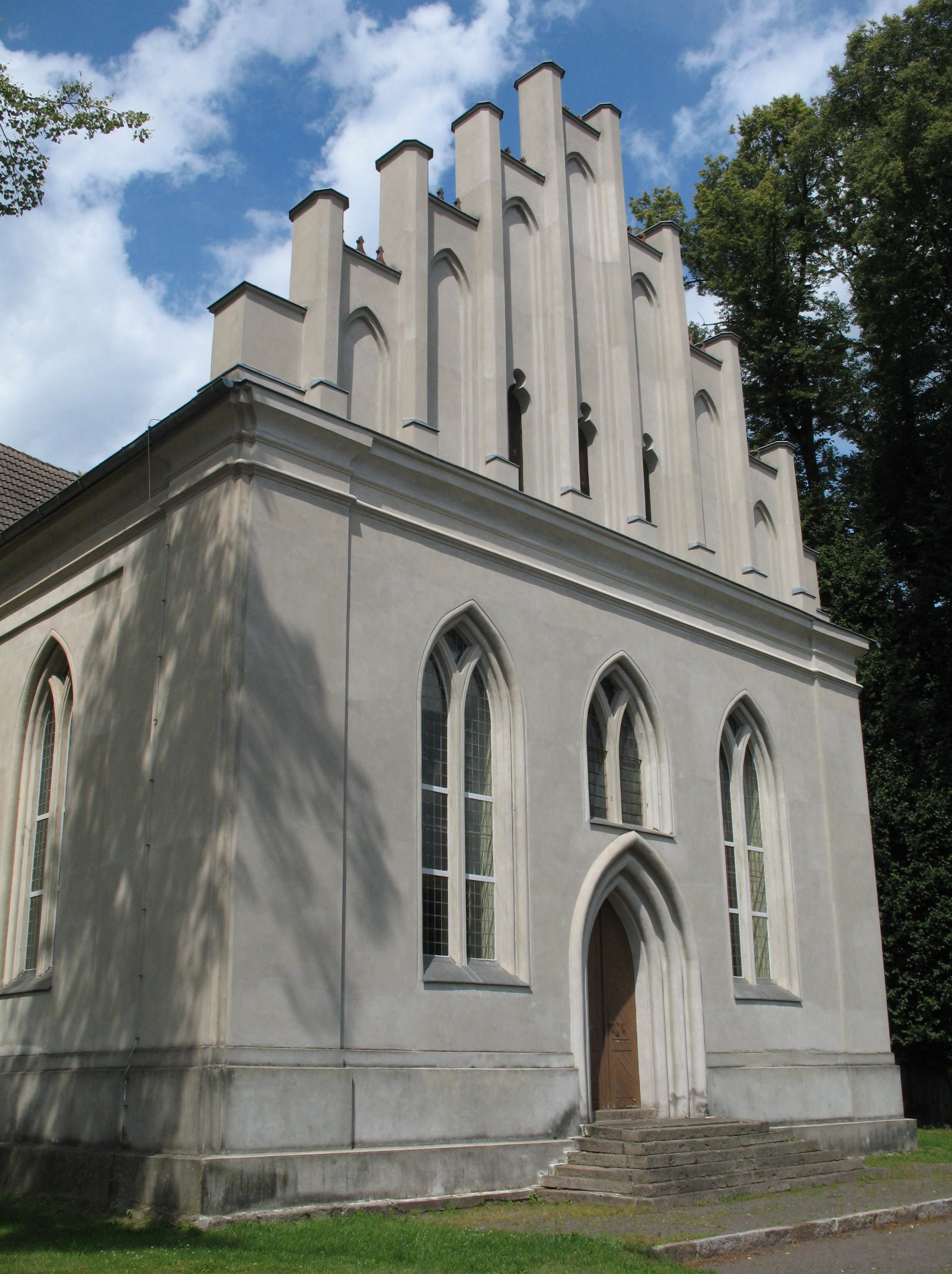 South-eastern view of Church in Joachimsthal in Brandenburg, Germany